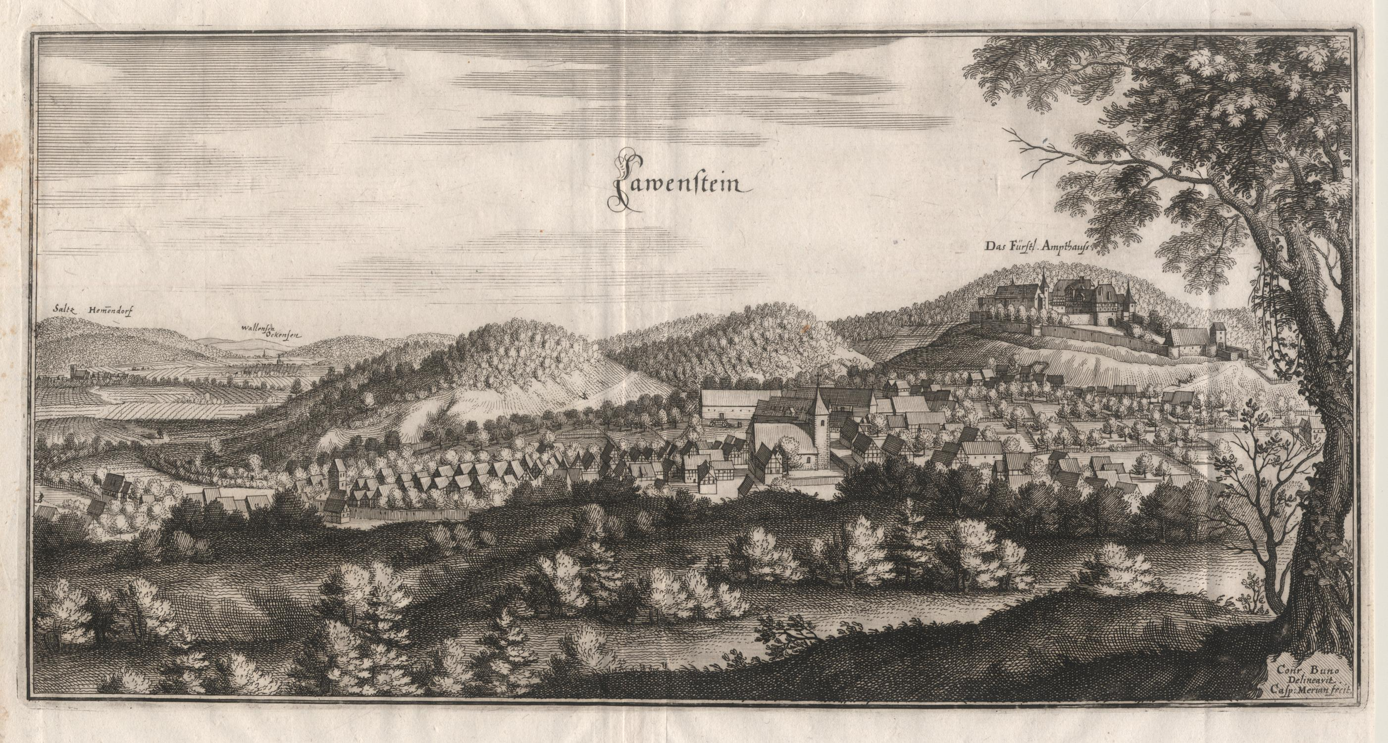 Lauenstein (Lower Saxony). Copper engraving from 1654